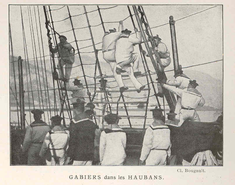 Subject: Sailors, Masts and rigging Tag: Vessels